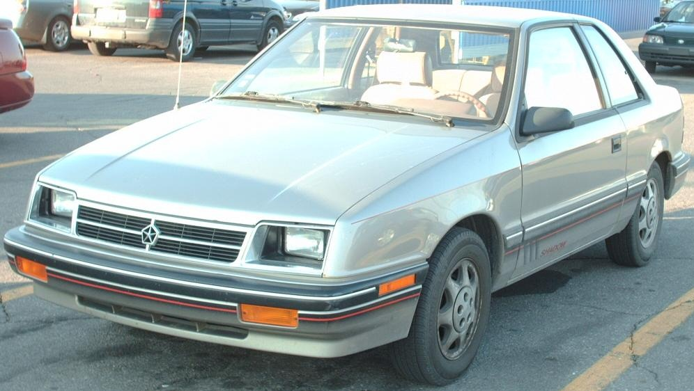 1988 Dodge Shadow photographed in Pointe Claire, Quebec, Canada.